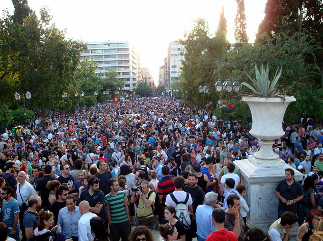 The Greek version of the Spanish 'Indignados' movement demonstratin in Athens on the 25 of May 2011.